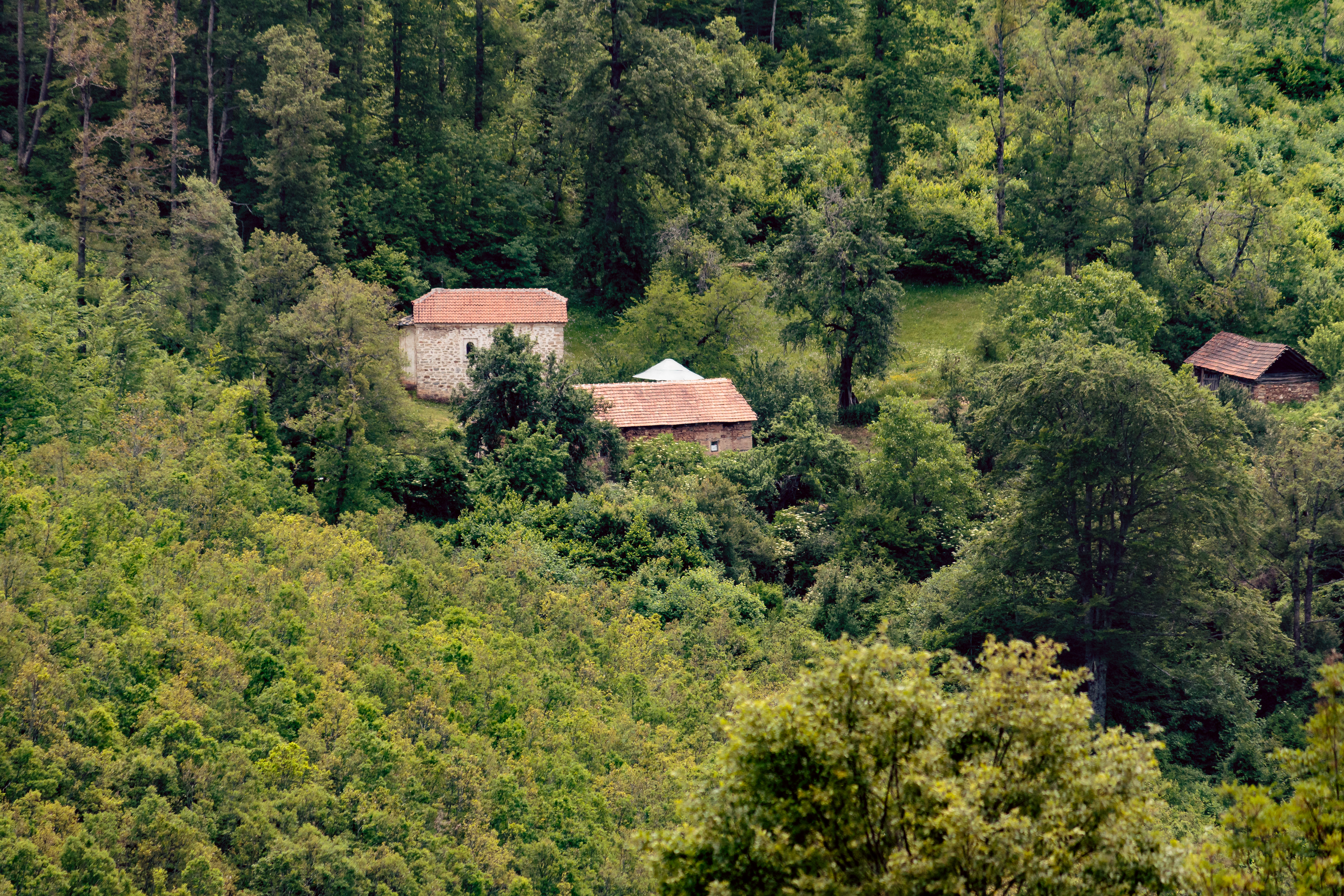 View of the Zašle Monastery